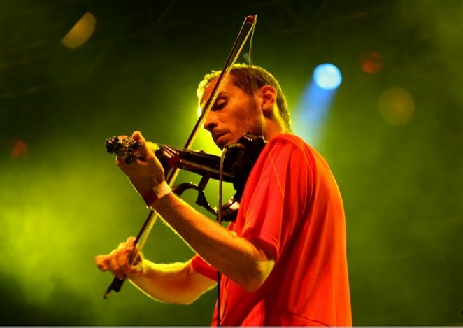 Polish rapper and musician Adam "O.S.T.R." Ostrowski